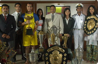 Chancellor With Winners and Trophies